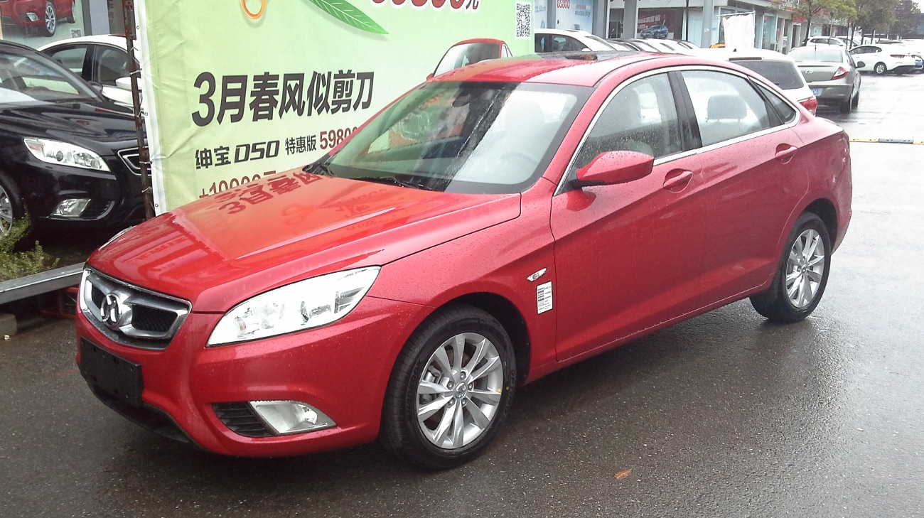 Senova D50 photographed in Shanghai, China.